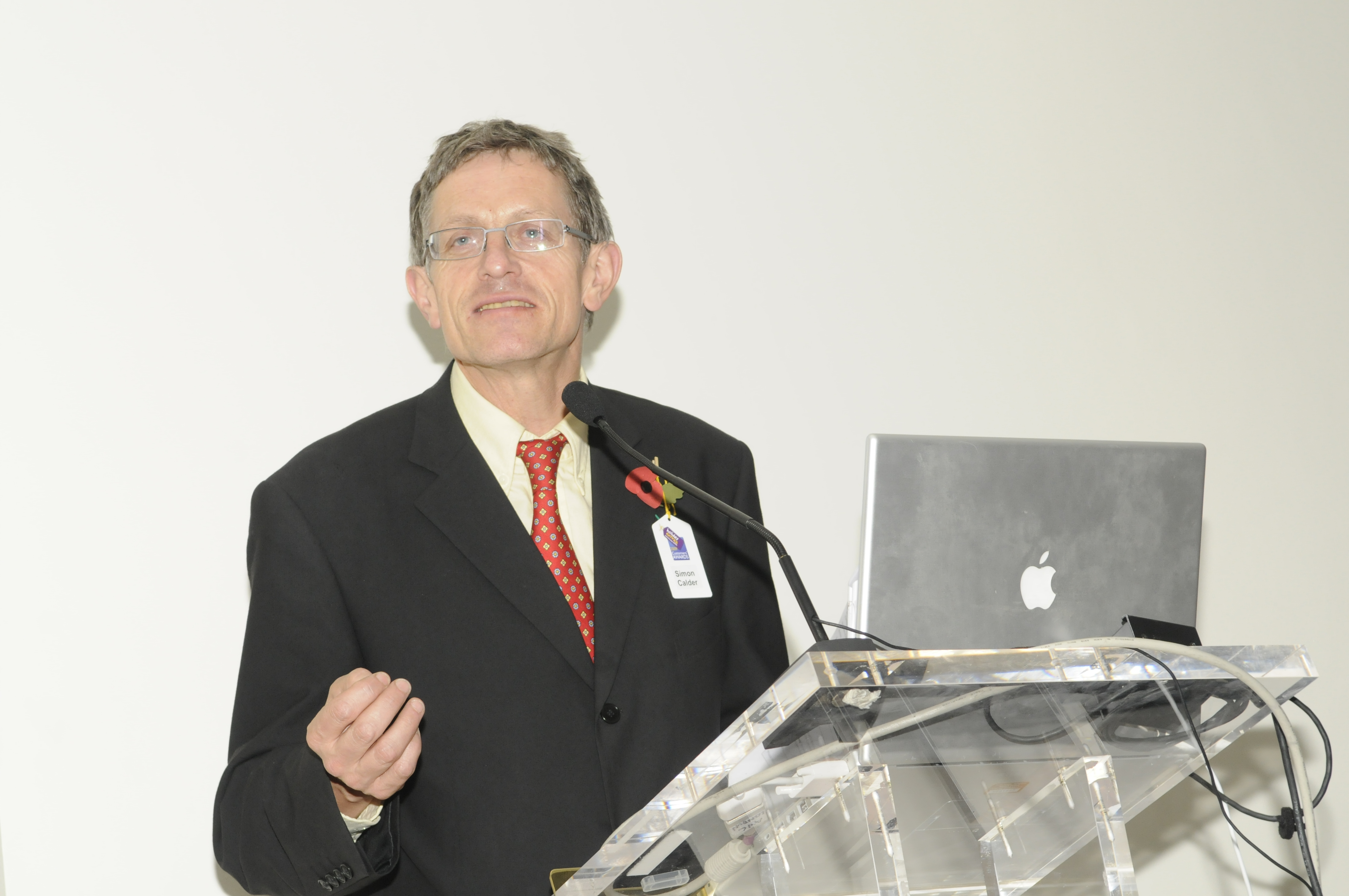 Simon Calder hosts the inaugural Holiday Extras Customers' Awards